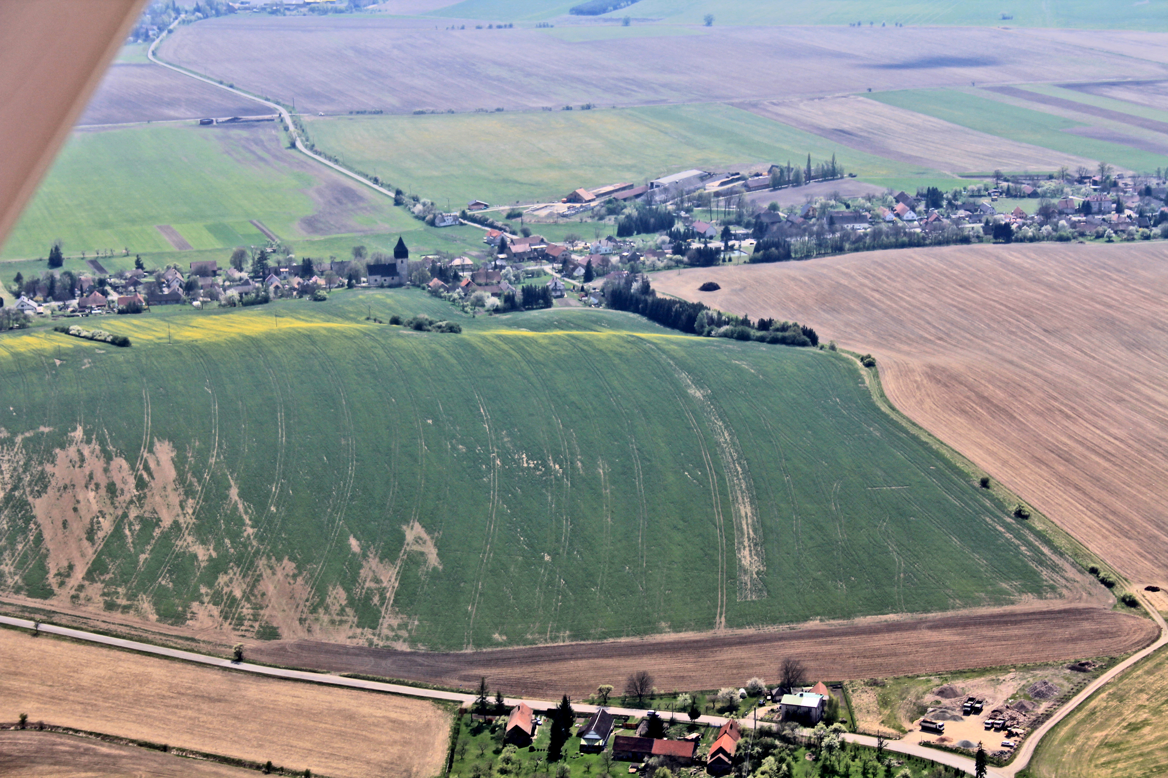 Village Králova Lhota - Rychnov nad Kněžnou District from air, eastern Bohemia, Czech Republic